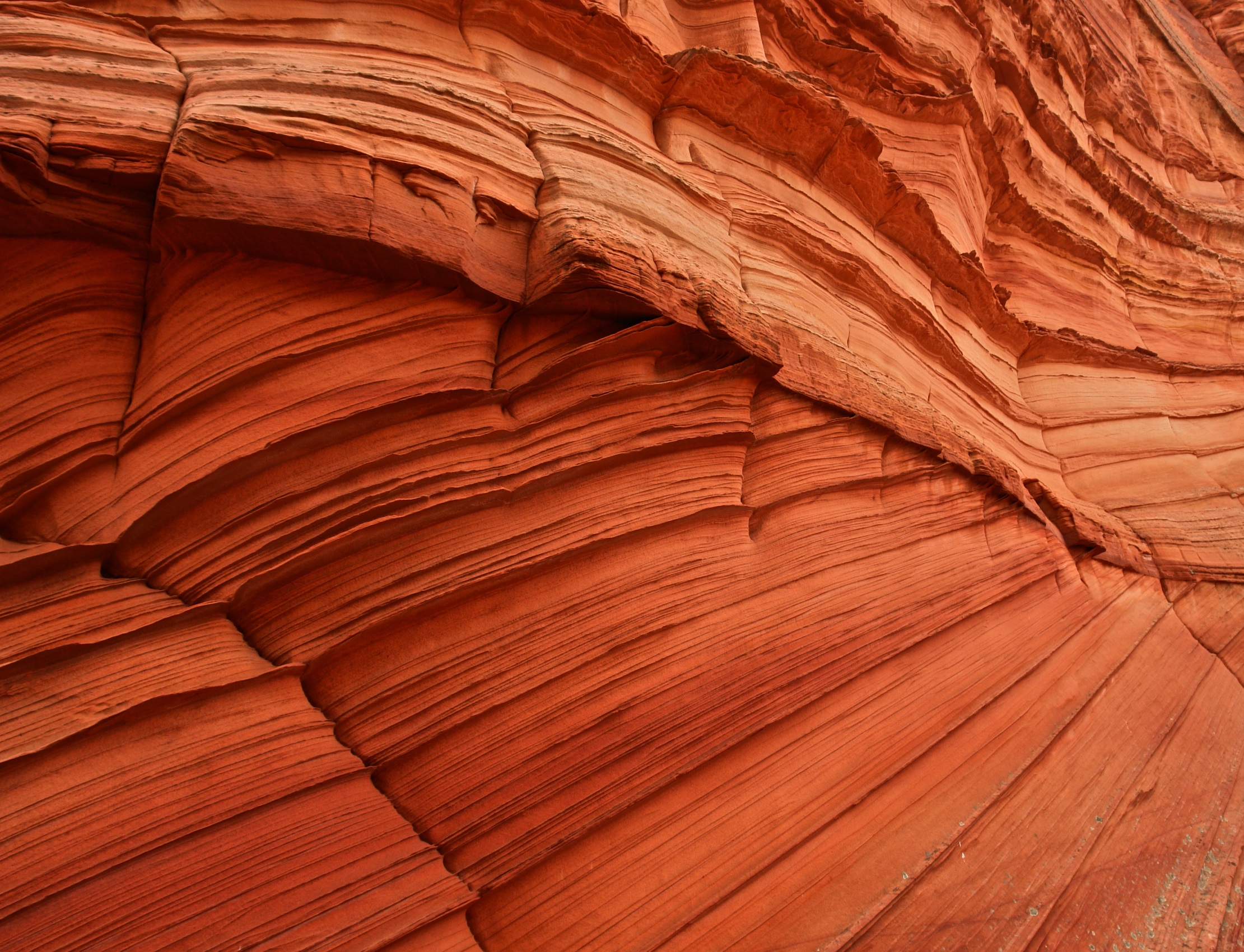 "The Wave", Coyote Buttes, Utah View On Black